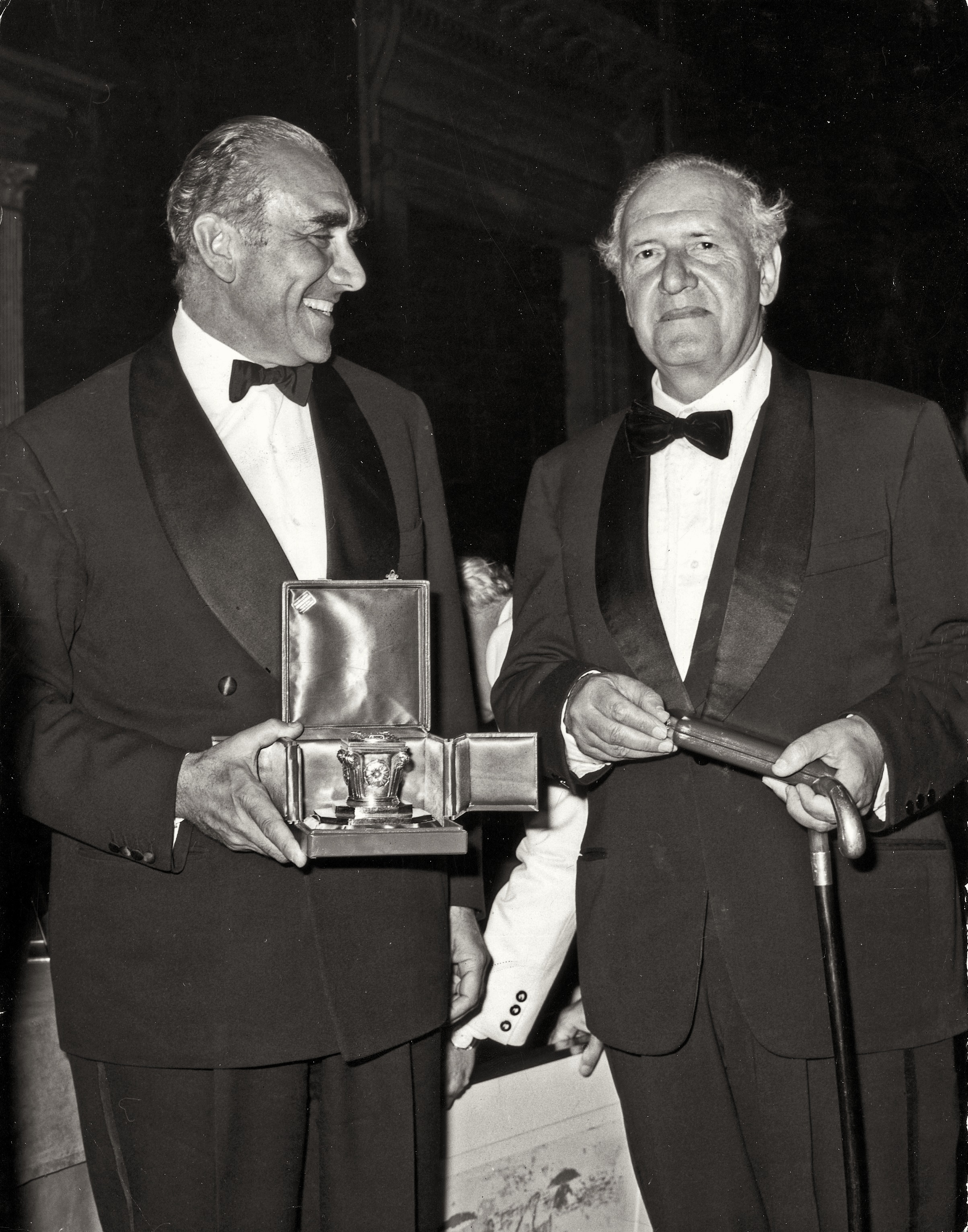 Italian publisher Giorgio Mondadori and author Mario Tobino.